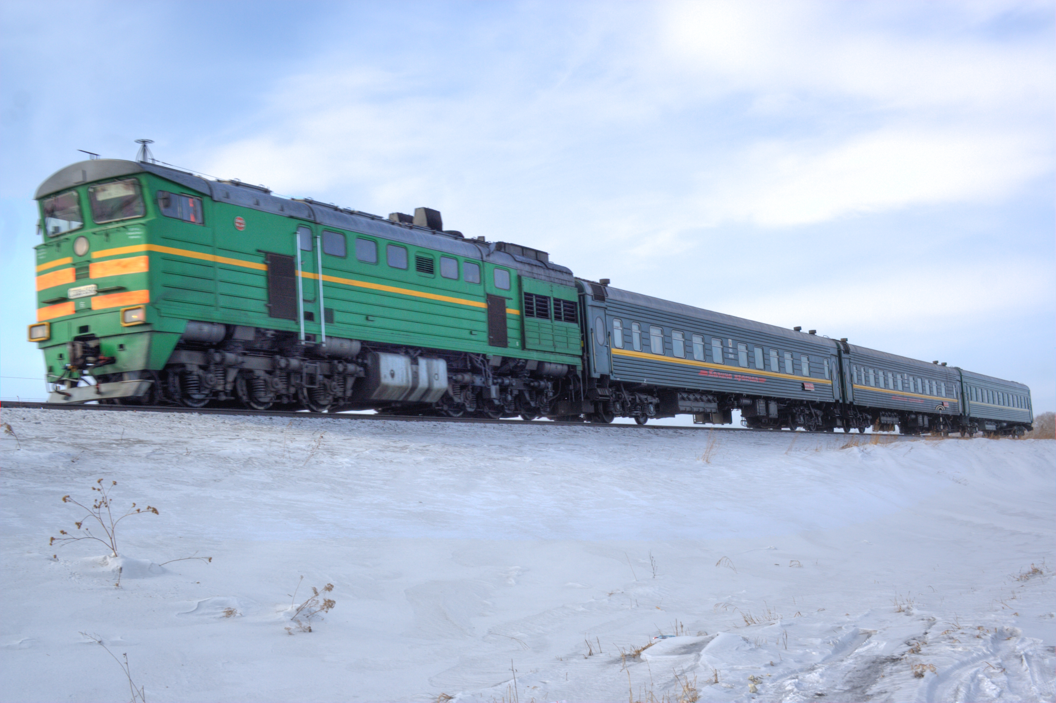 Express train Kalina krasnaya